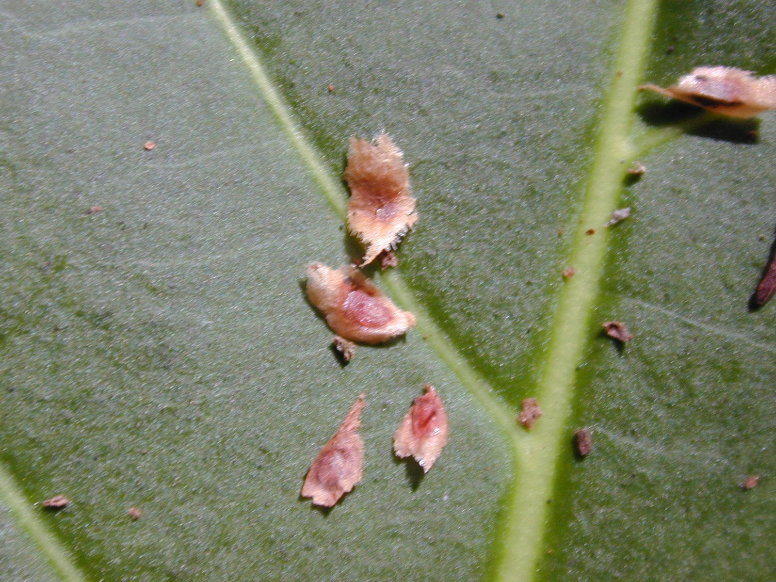 Cinchona pubescens (seeds). Location: Maui, Makawao Forest Reserve